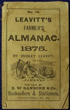 Leavitt's Farmer's Alamanac, 1875, by Dudley Leavitt, for sale by B. W. Sanborn & Co., Booksellers & Stationers, Concord, N.H.